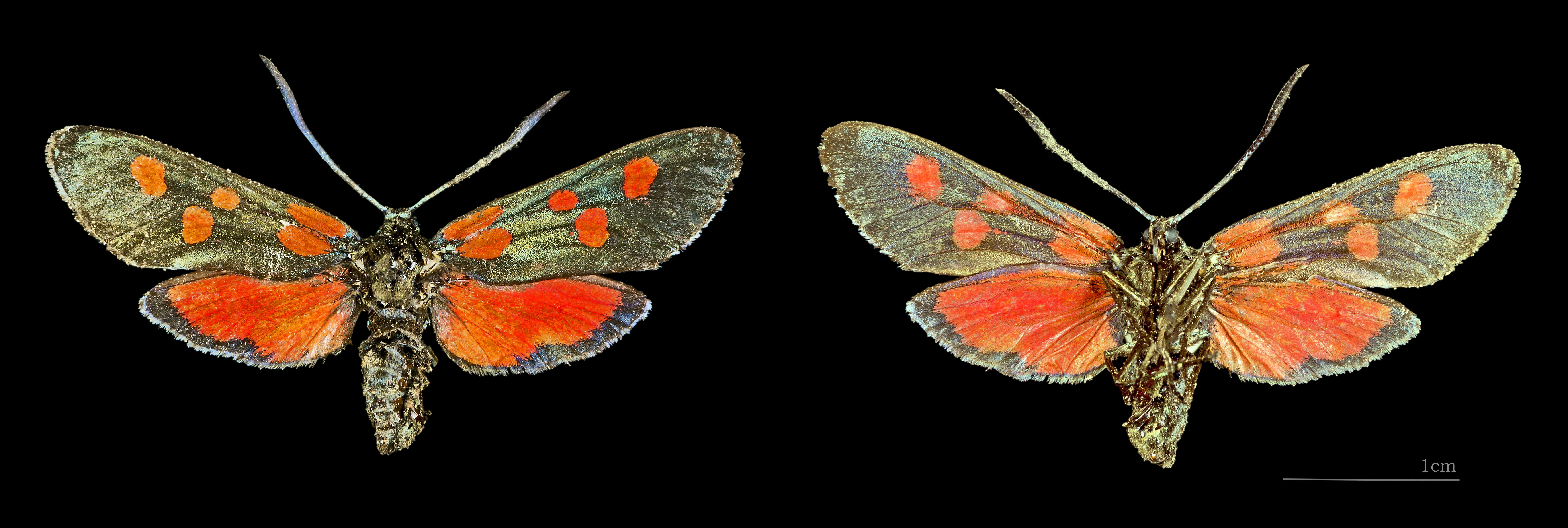 Narrow-Bordered Five-Spot Burnet - Two views of same specimen